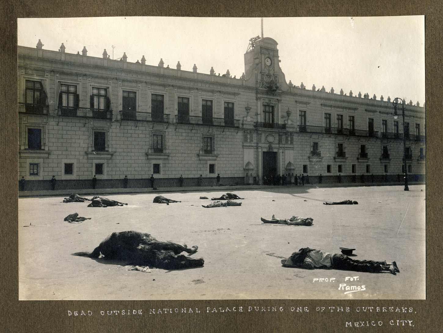 Creator: Ramos, Manuel Date: ca. 1913 Part Of: Album, Mexican Revolution Page Number: p. 02 Place: Mexico City, Mexico File: ag1996_1039_02_opt.tif Rights: Please cite Southern Methodist University, Central University Libraries, DeGolyer Library when using this file. A high-quality version of this file may be obtained for a fee by contacting . For more information, see: View Mexico: Photographs, Manuscripts, and Imprints at